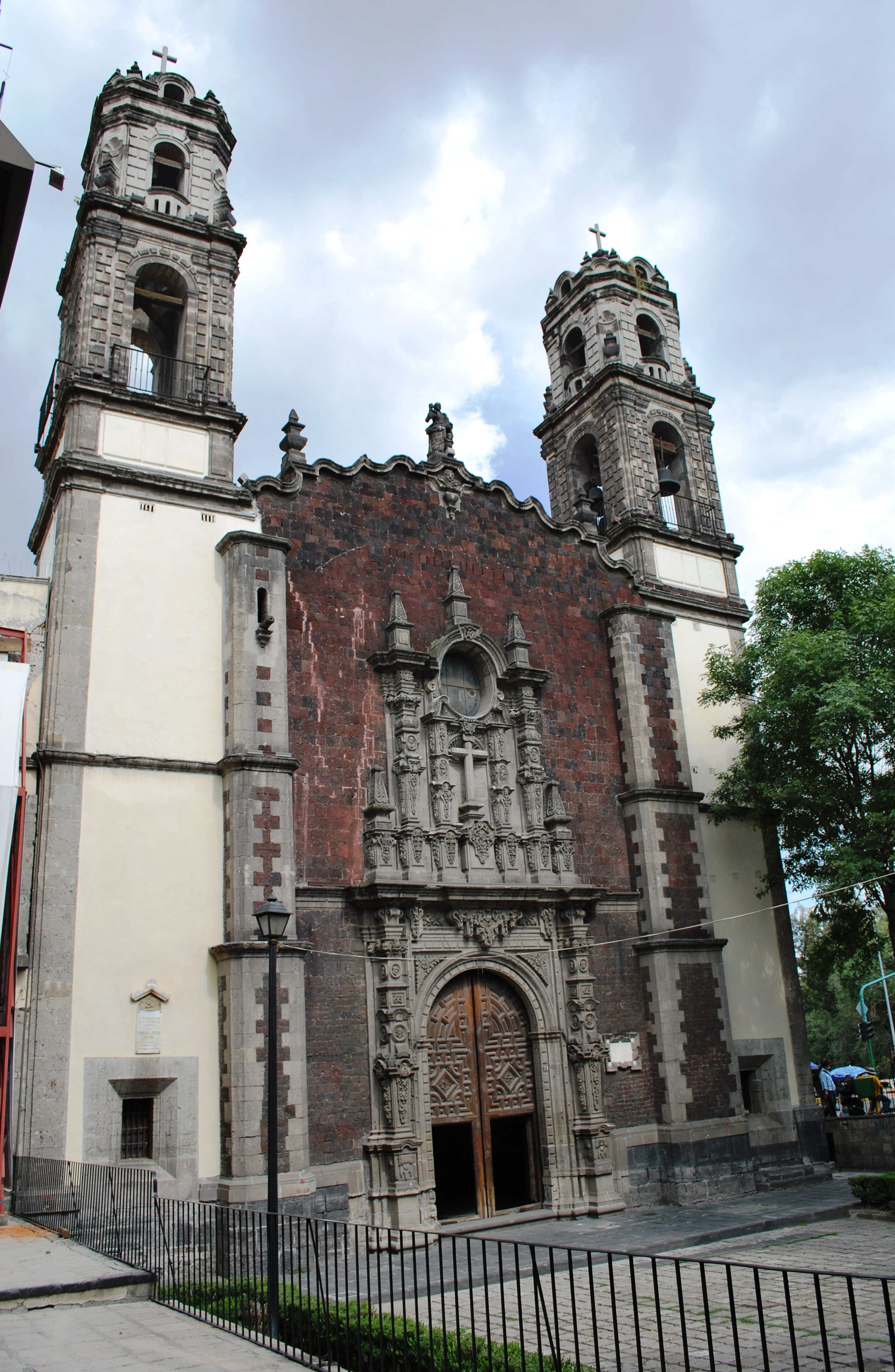 Main facade of the Parish of Santa Vera Cruz located near the Alameda in Mexico City